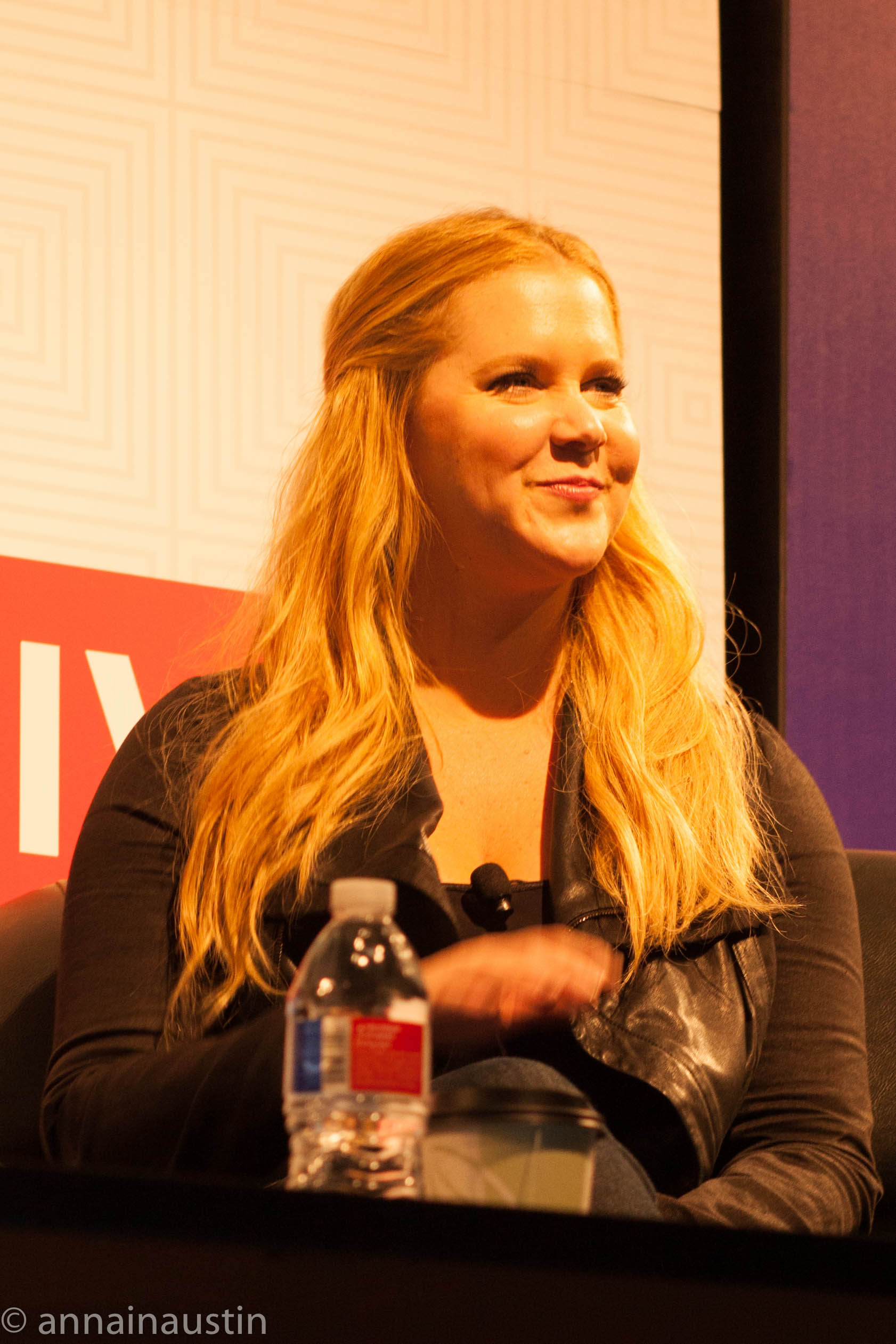 Amy Schumer at 2015 SXSW on March 16, 2015.